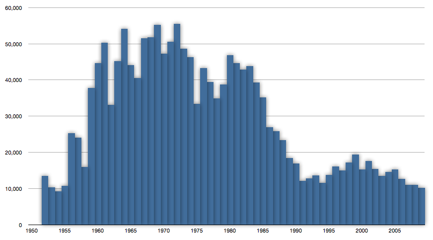 Fisheries recorded capture of Thunnus maccoyii from 1950 to 2009. Data source FAO fisheries